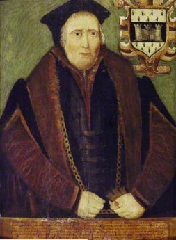 Lord Mayor of London Rowland Hill